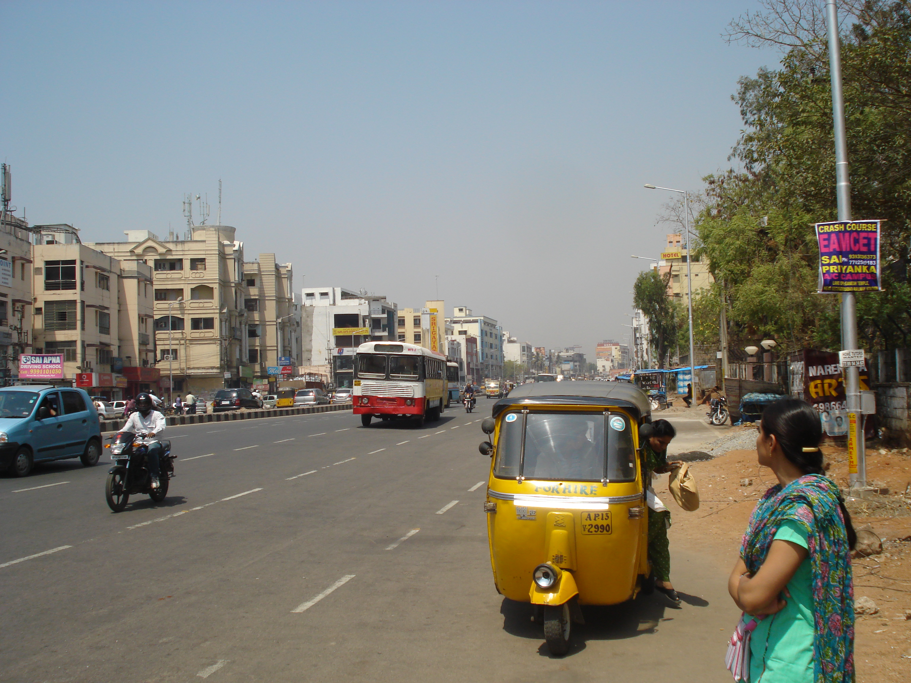 The look of Habshiguda shopping strip,Hyderabad,India